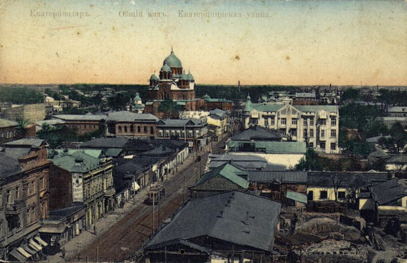 Екатеринодар. Екатерининская улица